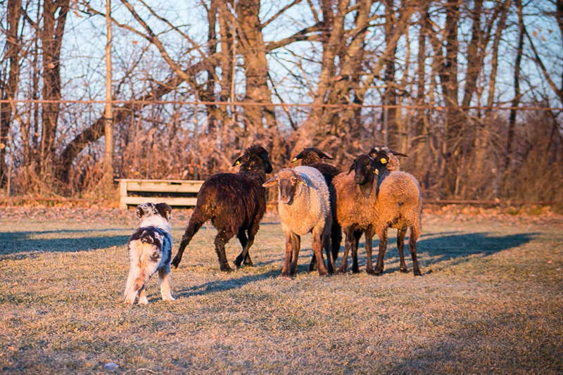 Miniature american shepherd herding sheep